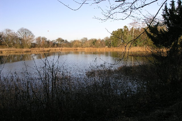 Feeder pond for water cascade. This pond is the feeder for a series of cascades which were built by Sir Thomas Hewet circa 1700. The cascades fell down towards Shireoaks Hall. (SK5580).